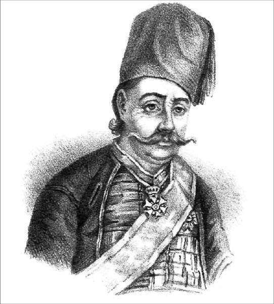 Petros (Petrobey) Mavromichalis, Magazine Ethnikon Imerologion Vrettou (National Diary by Vrettos), Vol 4, Number 1 (1864), Issue 1, Year 4